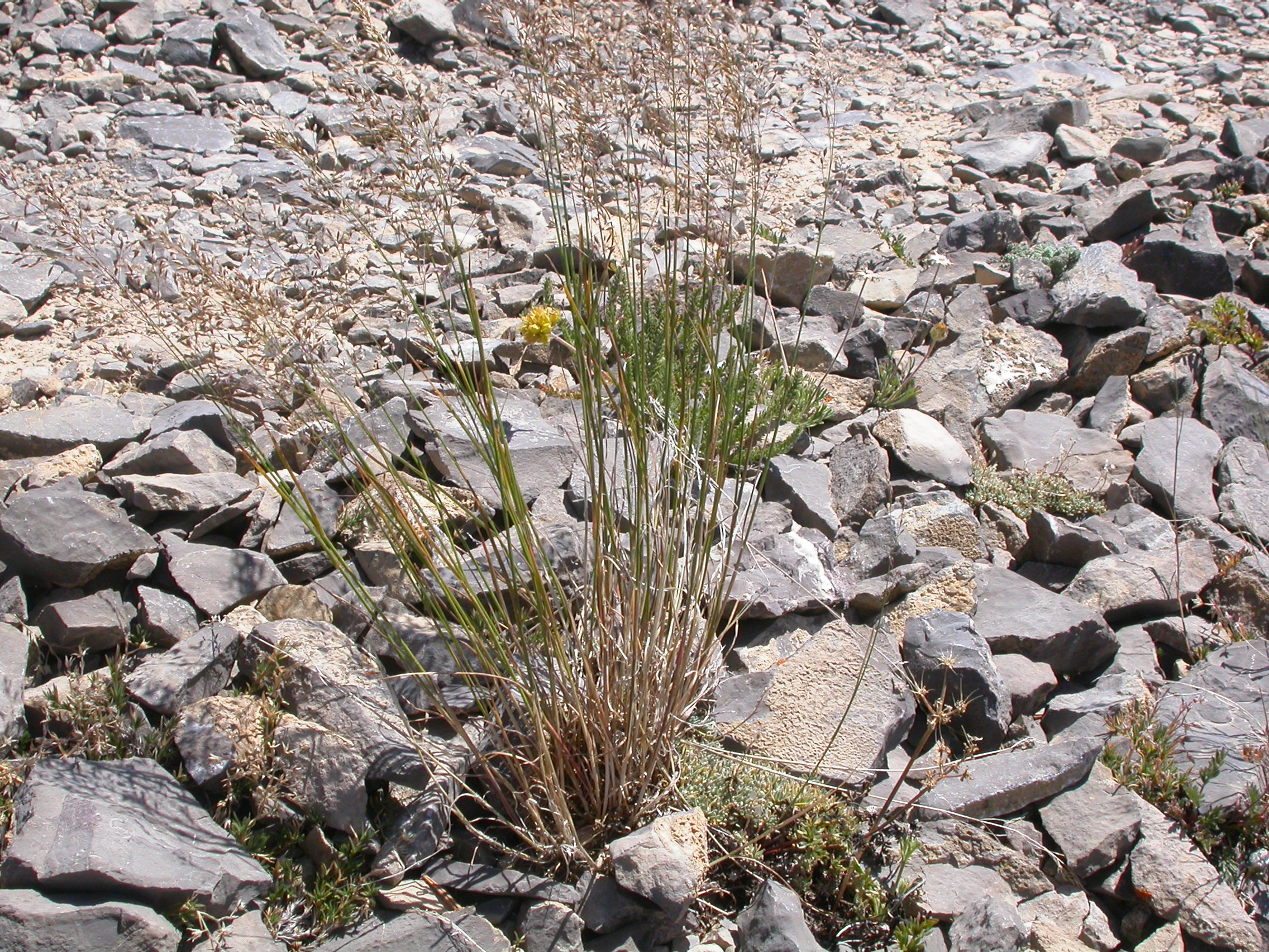 The flowering stems of this perenial bunchgrass typically arise from soil level through a loose basal leaf bunch.